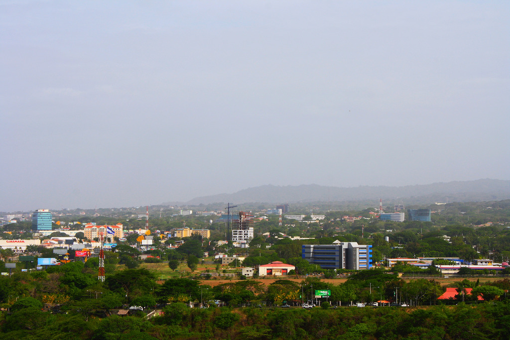 Panoramica de Managua